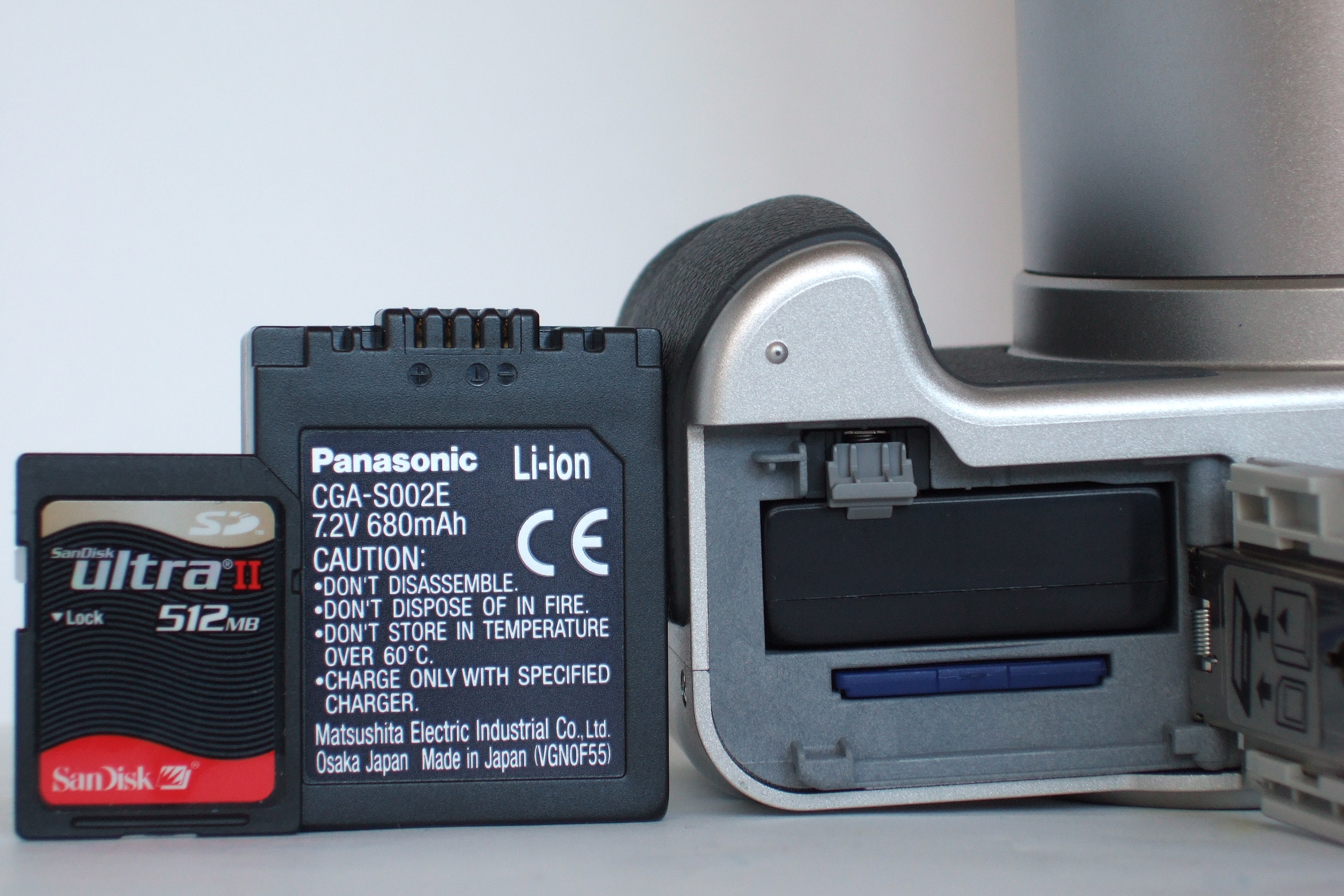 Battery Compartment and Memory Card Slot Of The Panasonic Lumix DMC-FZ20